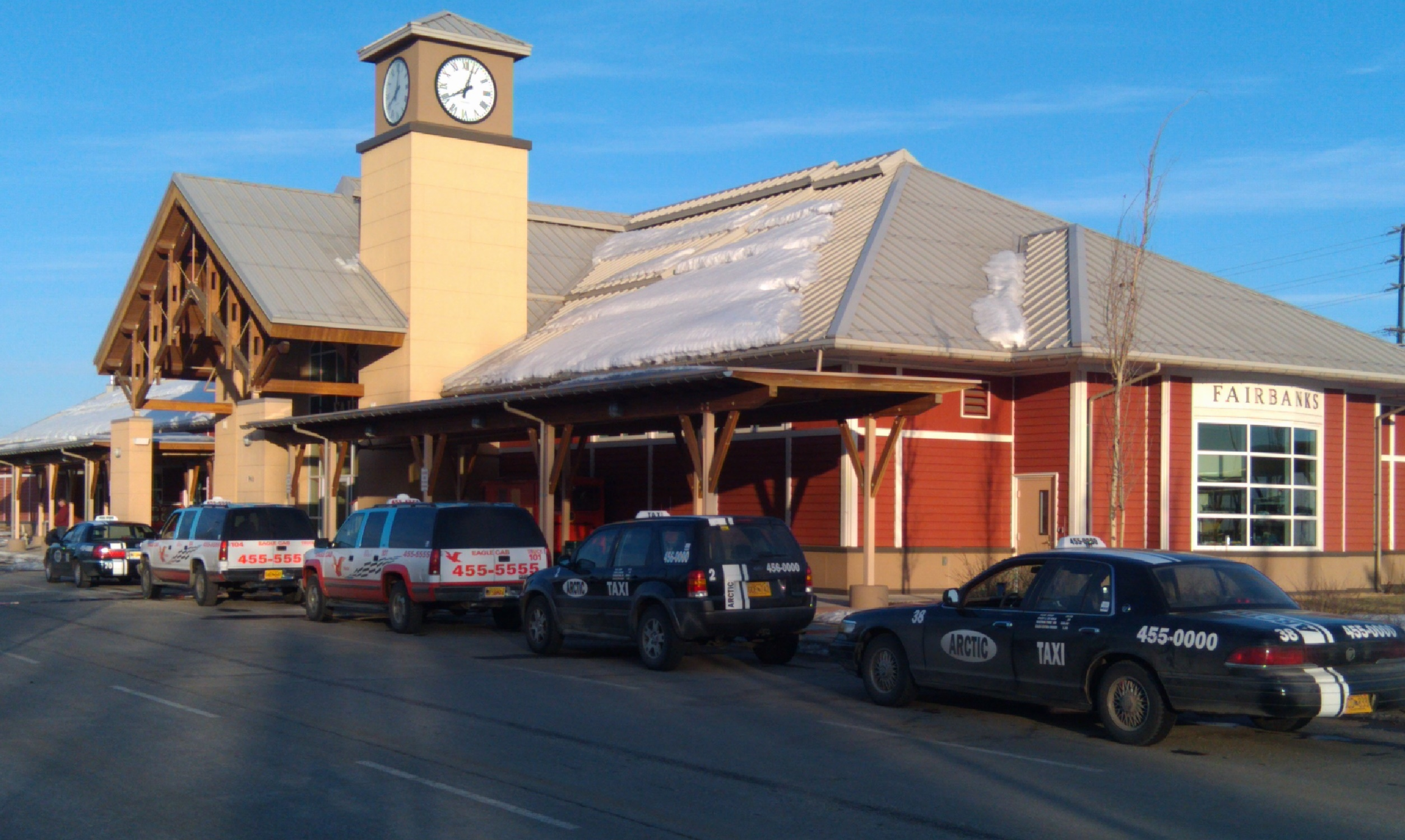 A line of taxicabs waits at the Alaska Railroad depot in Fairbanks, Alaska for an approaching train.